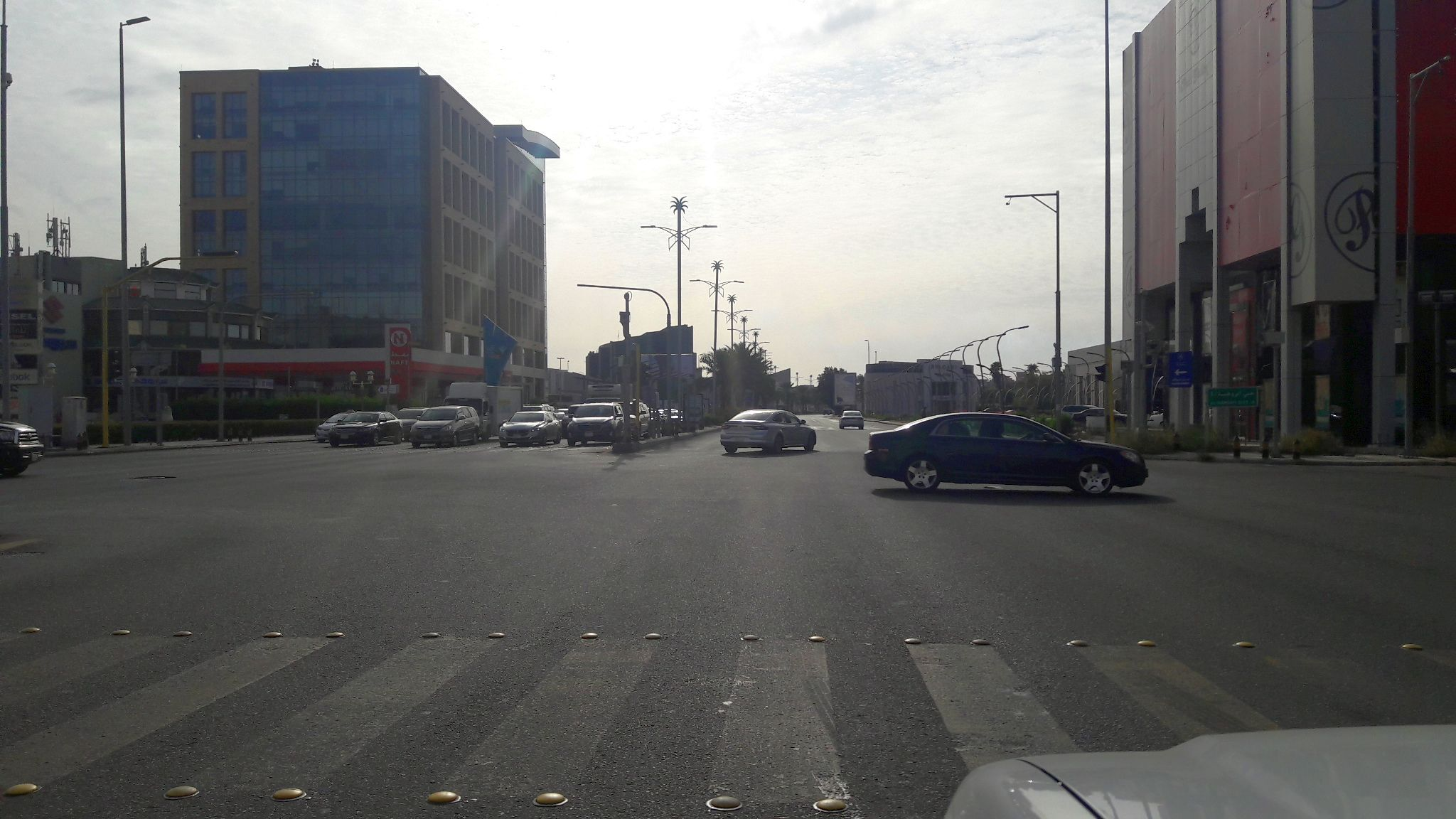 Tahlia Street Jeddah